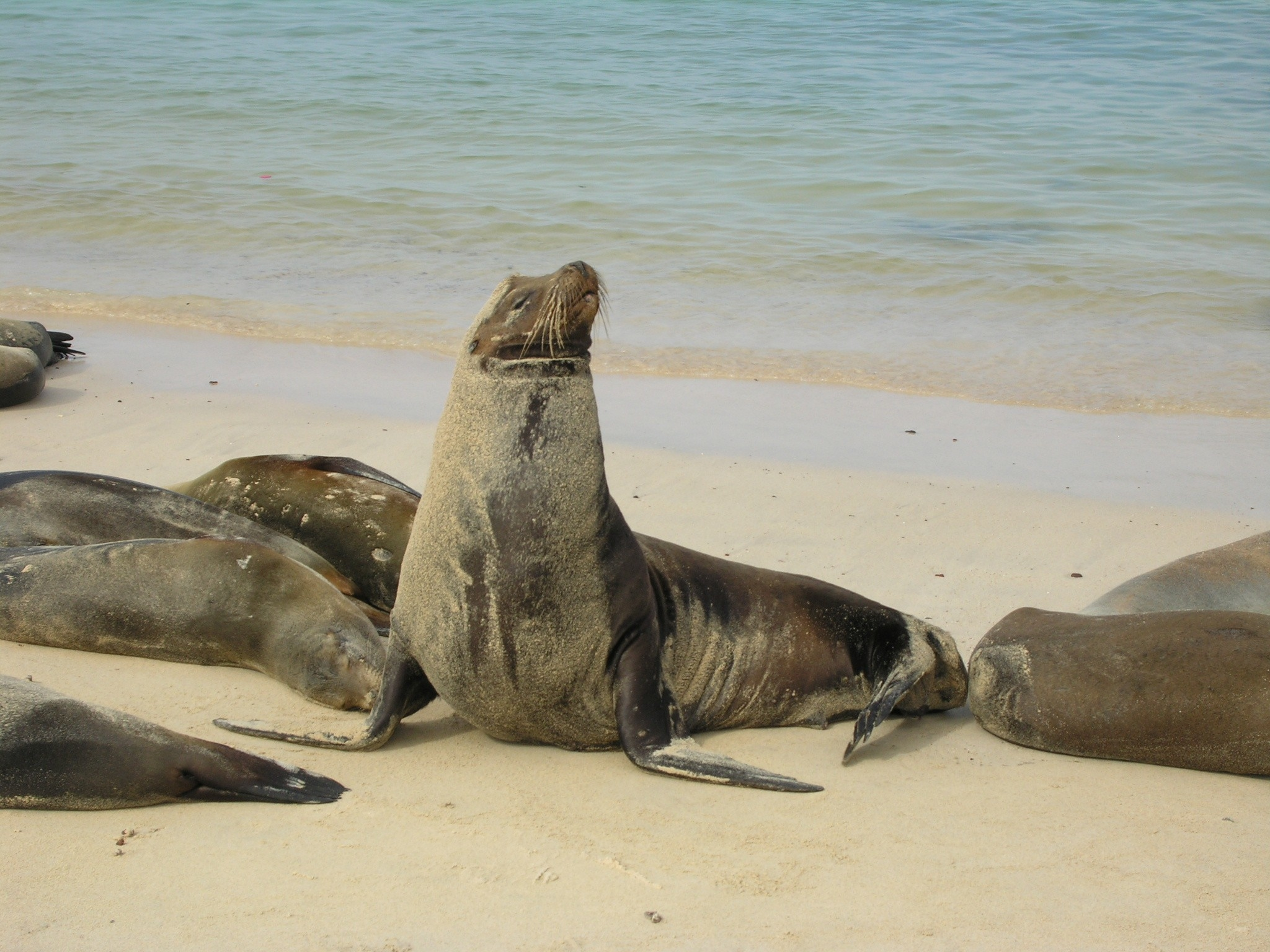 Galapagos Islands